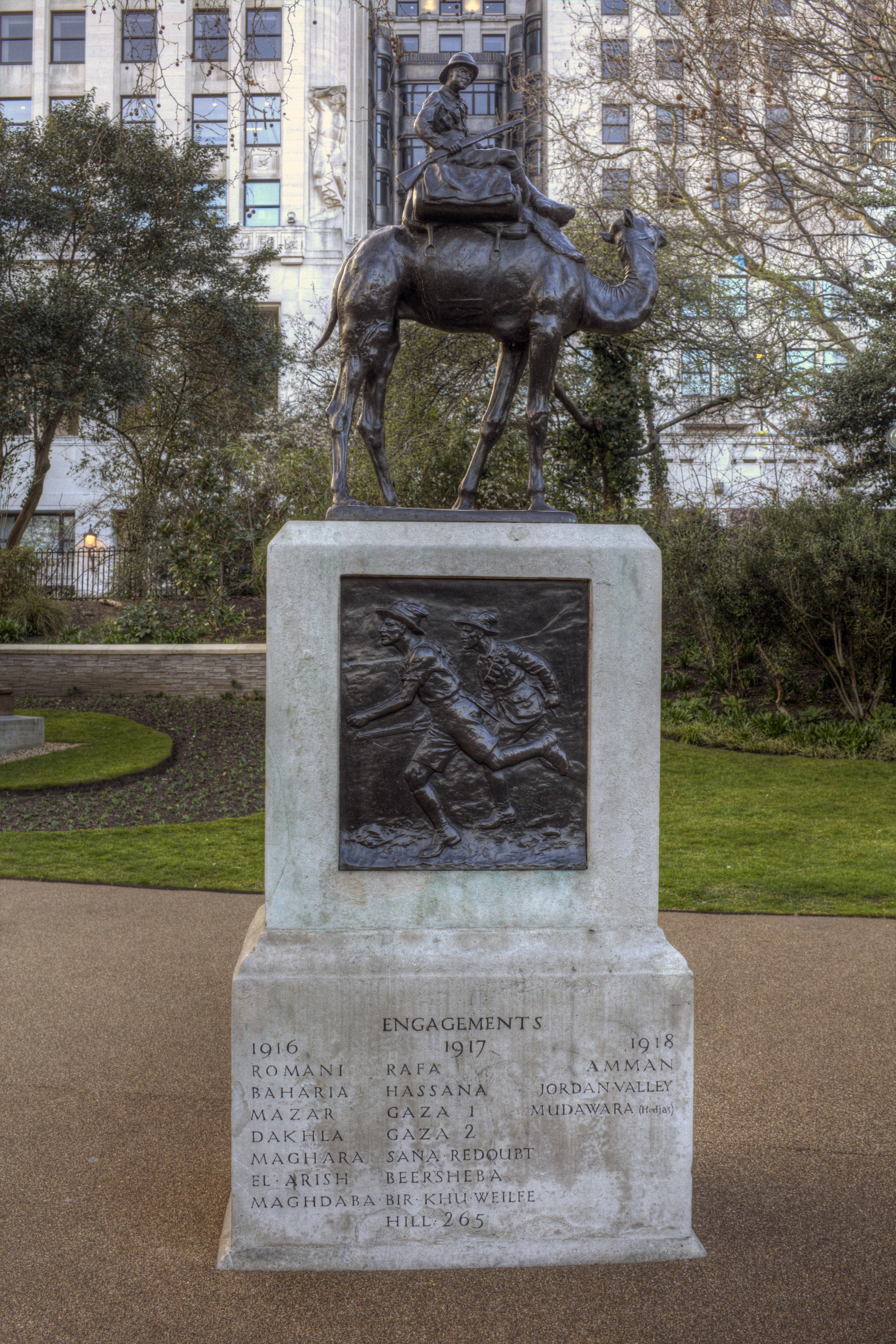 Camel Corps Memorial, Victoria Embankment Gardens - front view